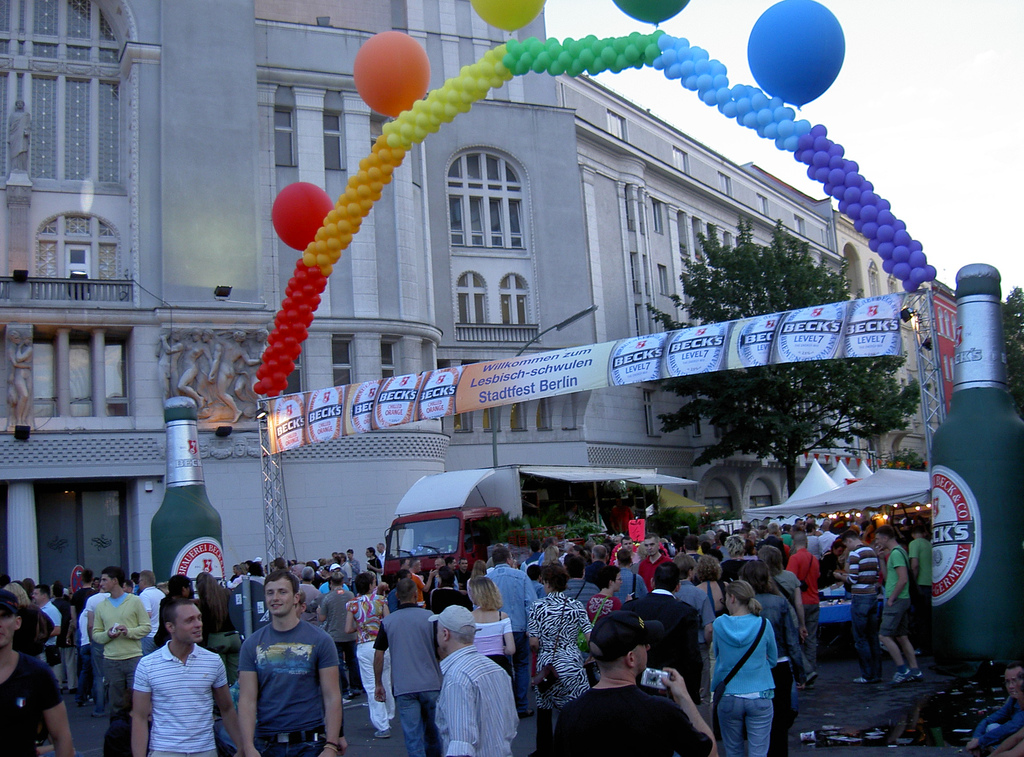 Schwul-lesbisches Stadtfest Berlin